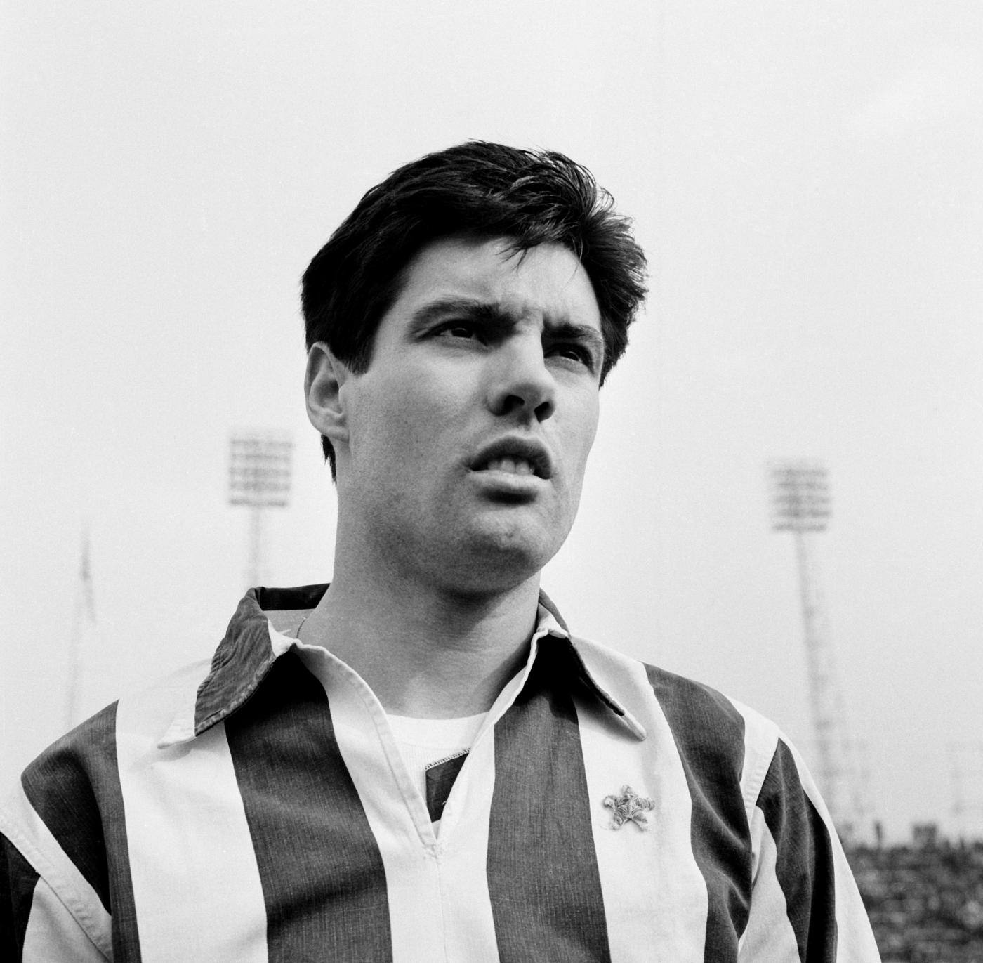 Italian footballer Sandro Salvadore with Juventus F.C. in the 1960s.